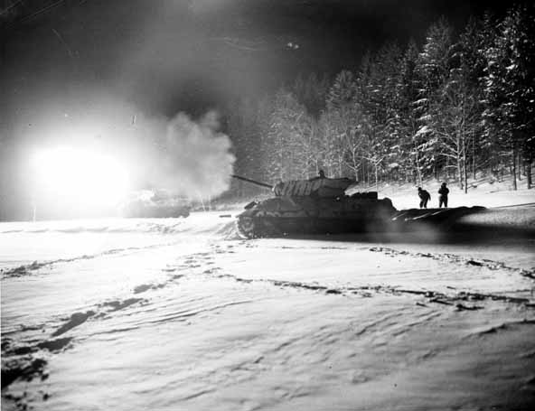 Tank destroyers, serving as artillery, fire on enemy positions at night. They are using two types of ammunition, one which has very bright powder flash, and another which has a dull red glow that gives off very little light. Sparsbach area, France.